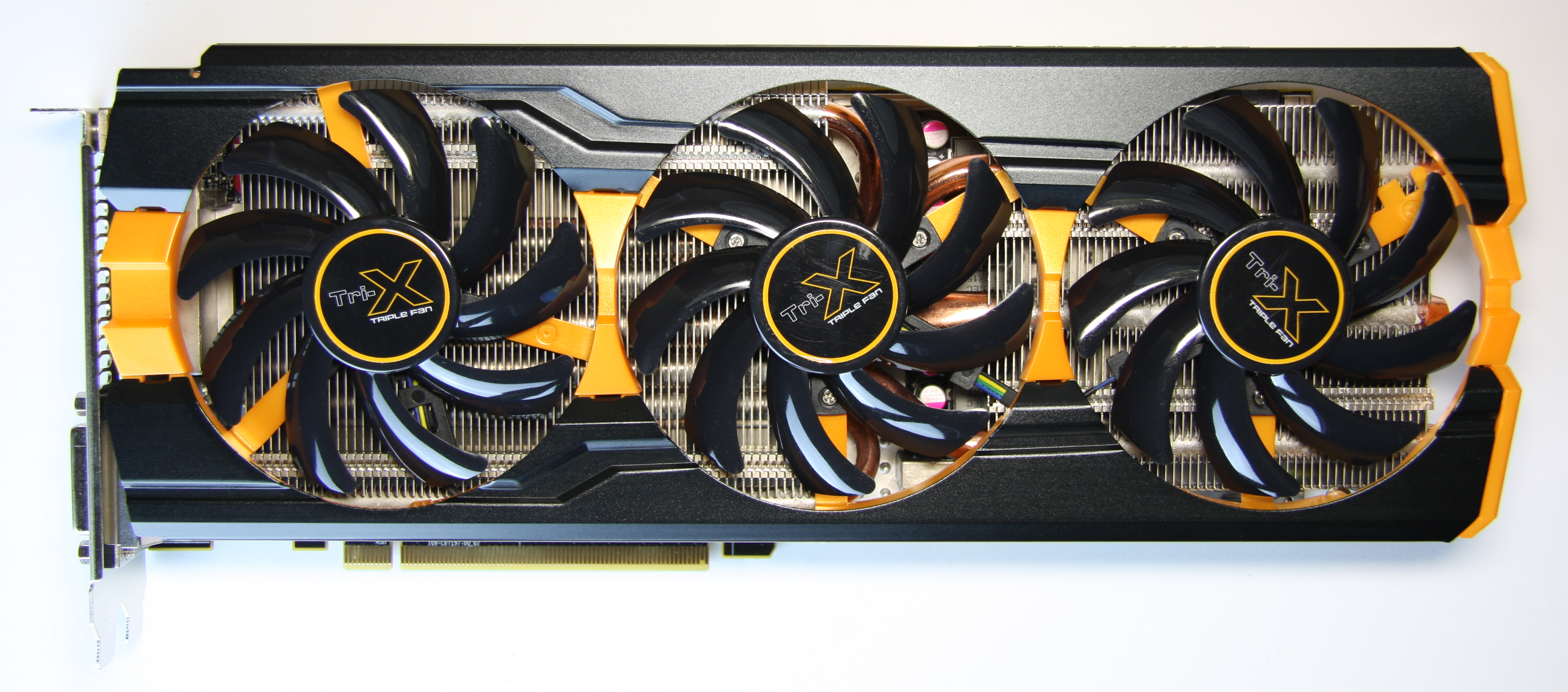 The top side of a Sapphire Radeon R9 290X. See also AMD Radeon Rx 200 Series